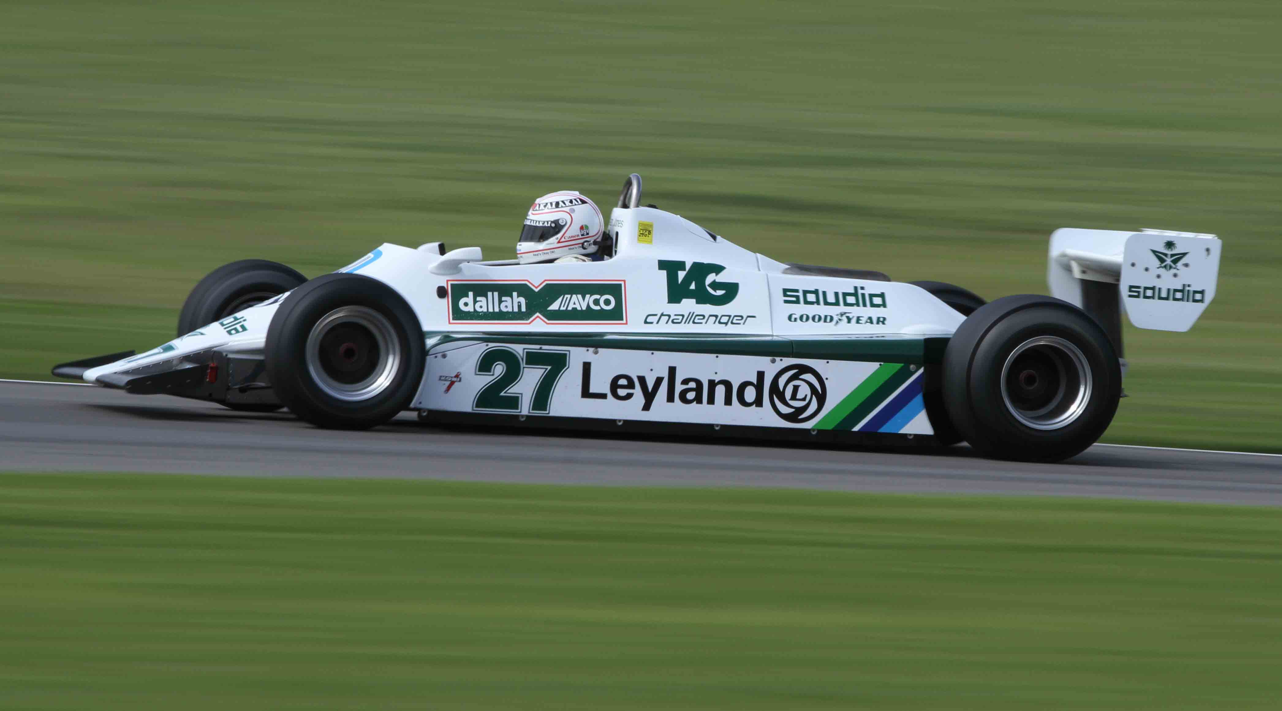 Williams FW07 at Barber Motorsports Park, 2010